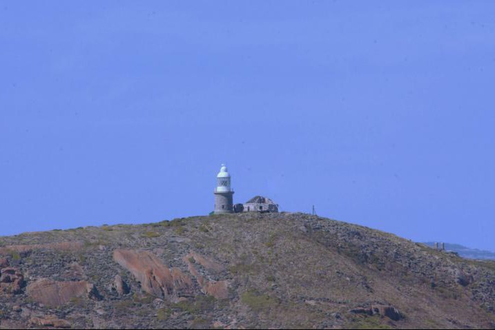 ESTABLISHED IN 1858 BUT PRESENT STRUCTURE BUILT IN 1901 WITH MAJOR RESTORATION